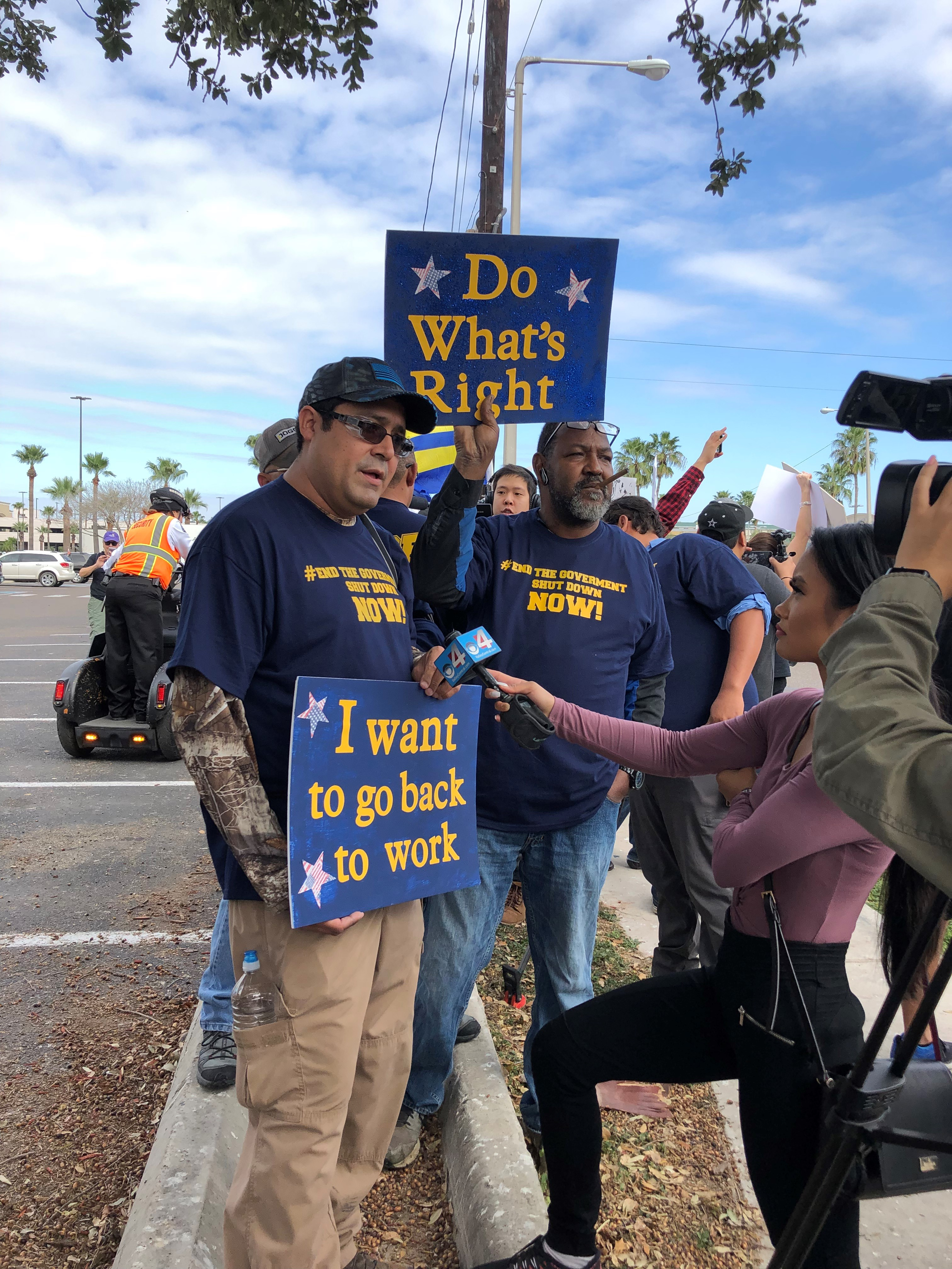 Union Activists Rally in McAllen, TX to End the Shutdown Union Activists Rally in McAllen, TX to End the Shutdown